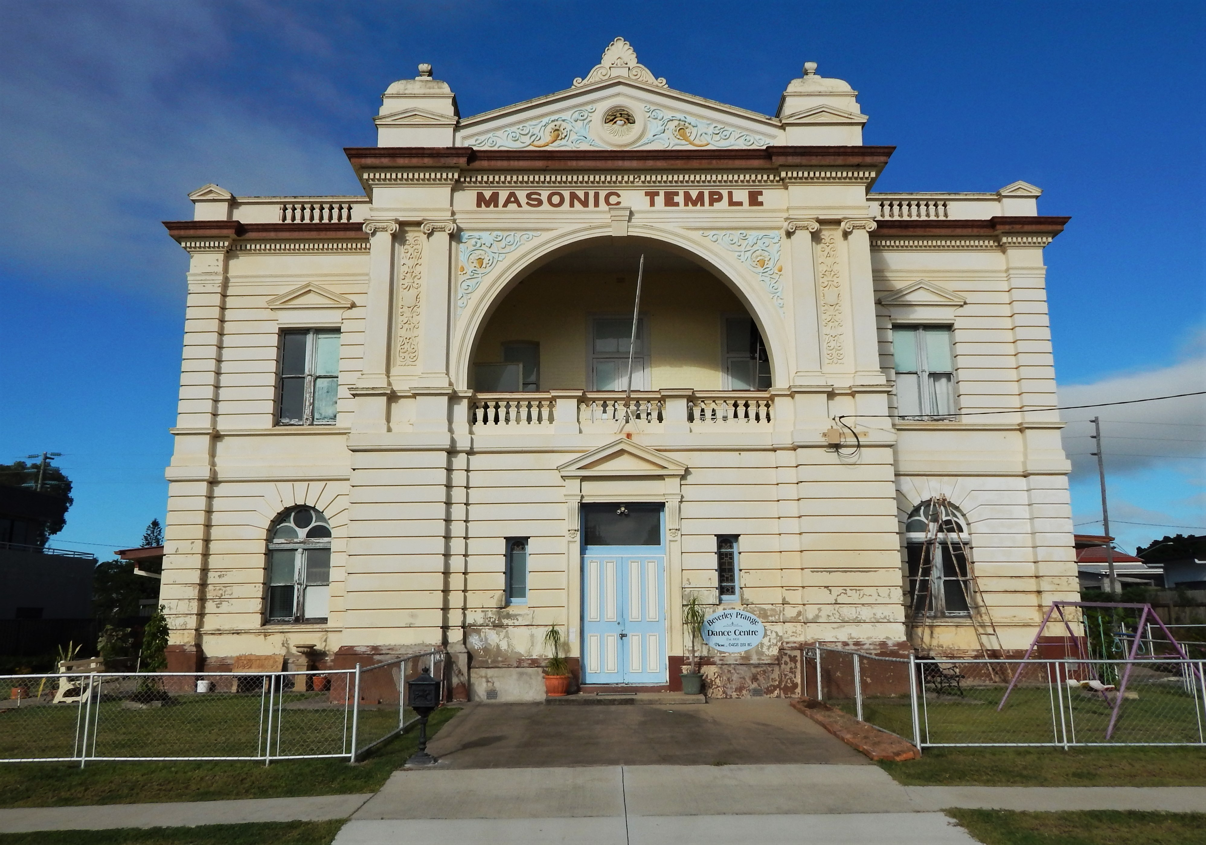 The masonic temple in the regional Australian city of Rockhampton, Queensland